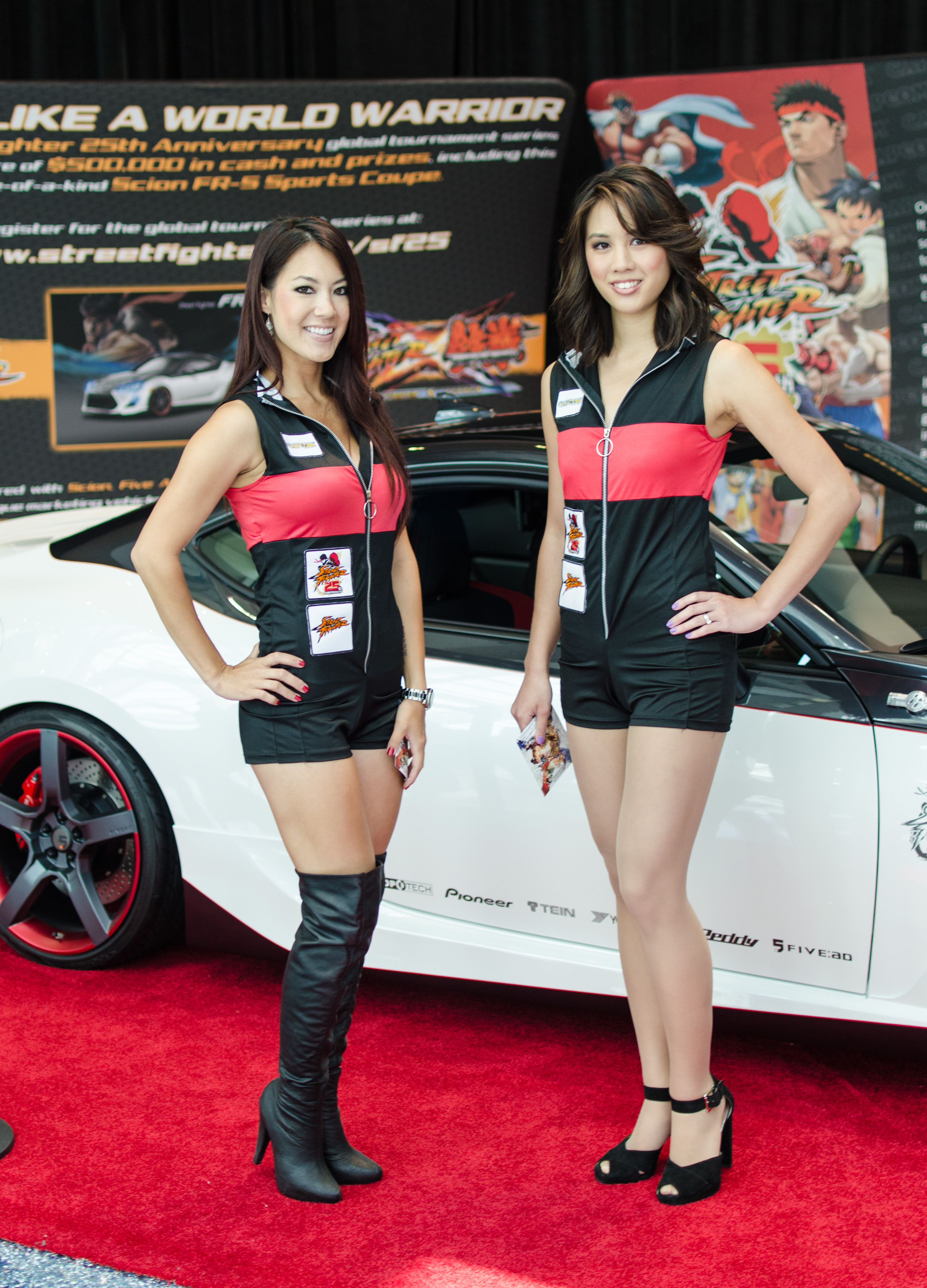 Booth-babes at E3 2012